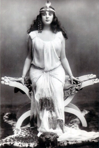 Gaynor Rolands, Gaiety Girl, as Salome.